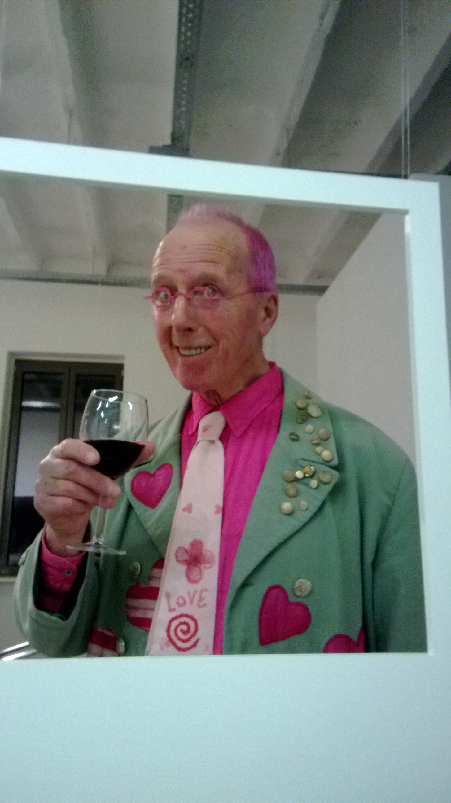 nicholas teadwell in 2015